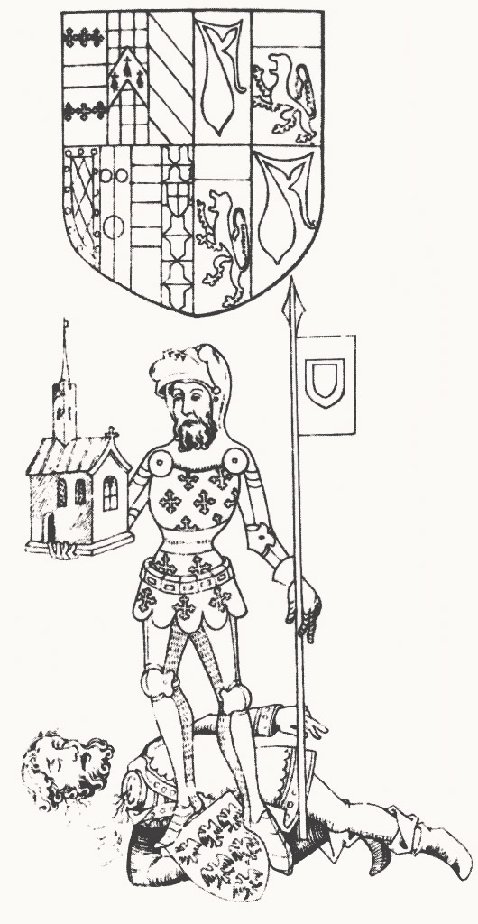 Guy de Beauchamp, Earl of Warwick standing over the decapitated body of Piers Gaveston. From the Rous Rolls.